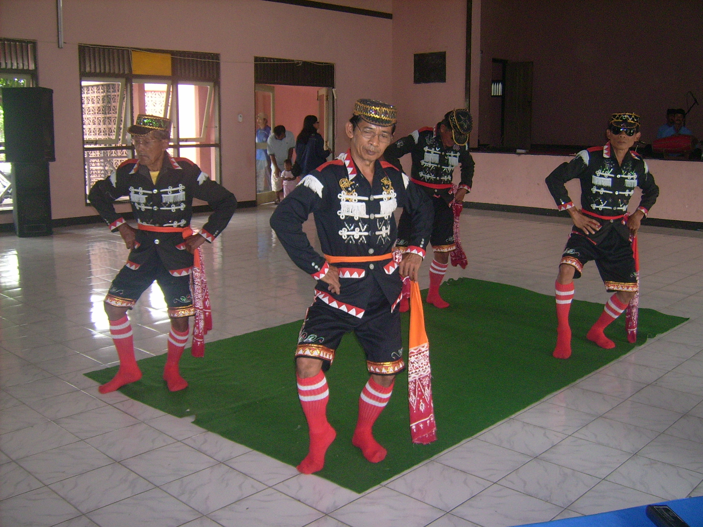 The picture of traditionl dance from Purworejo, Central Java, Indonesia